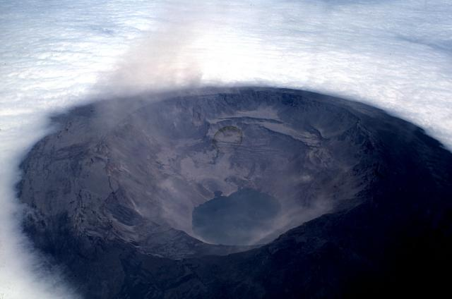 Aerial view of La Cumbre volcano on Fernandina Island, Galápagos Islands, Ecuador